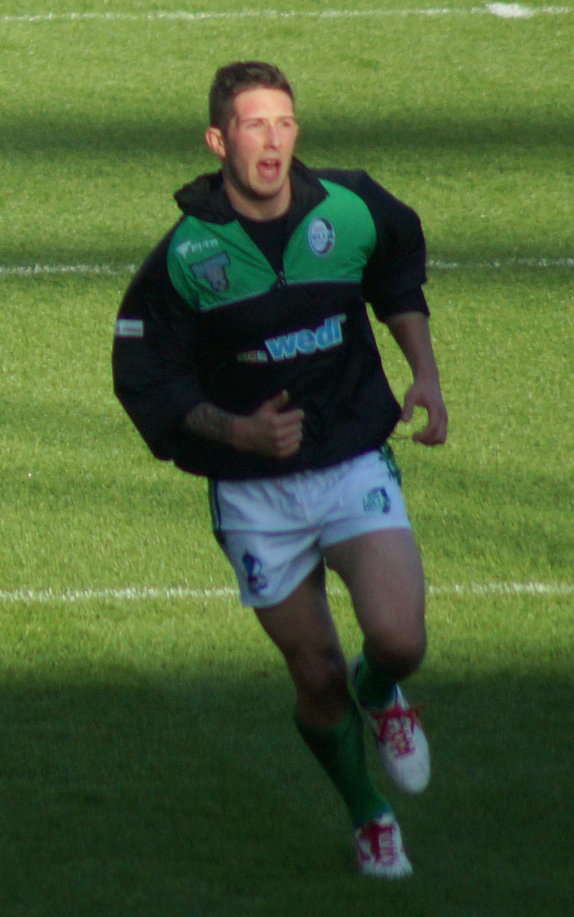 Ireland's James Mendeika at warm-up before 2013 Rugby League World Cup match between England and Ireland at John Smith's Stadium, Huddersfield.